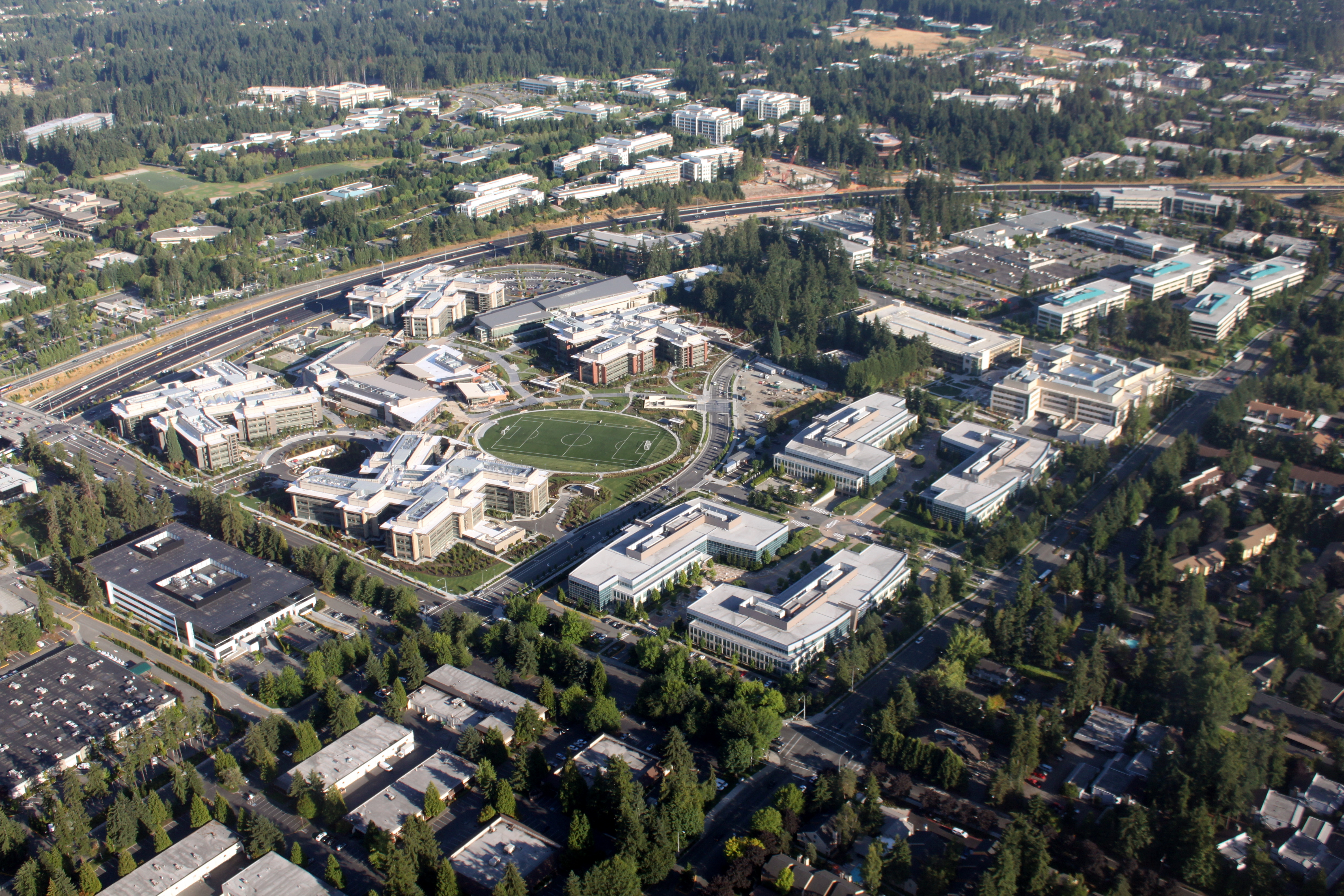 The west campus of Microsoft, Redmond, Washington, taken from about 1,500'. The photo is looking south-east. The west campus is bounded on the west by 148th Ave, on the east by SR 520, and on the north (foreground) by 40th St.